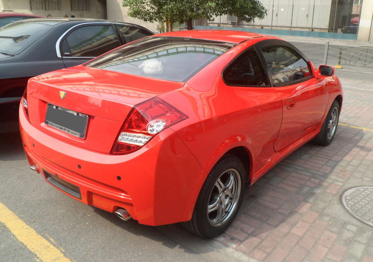 Geely Zhongguolong photographed in Shanghai, China.